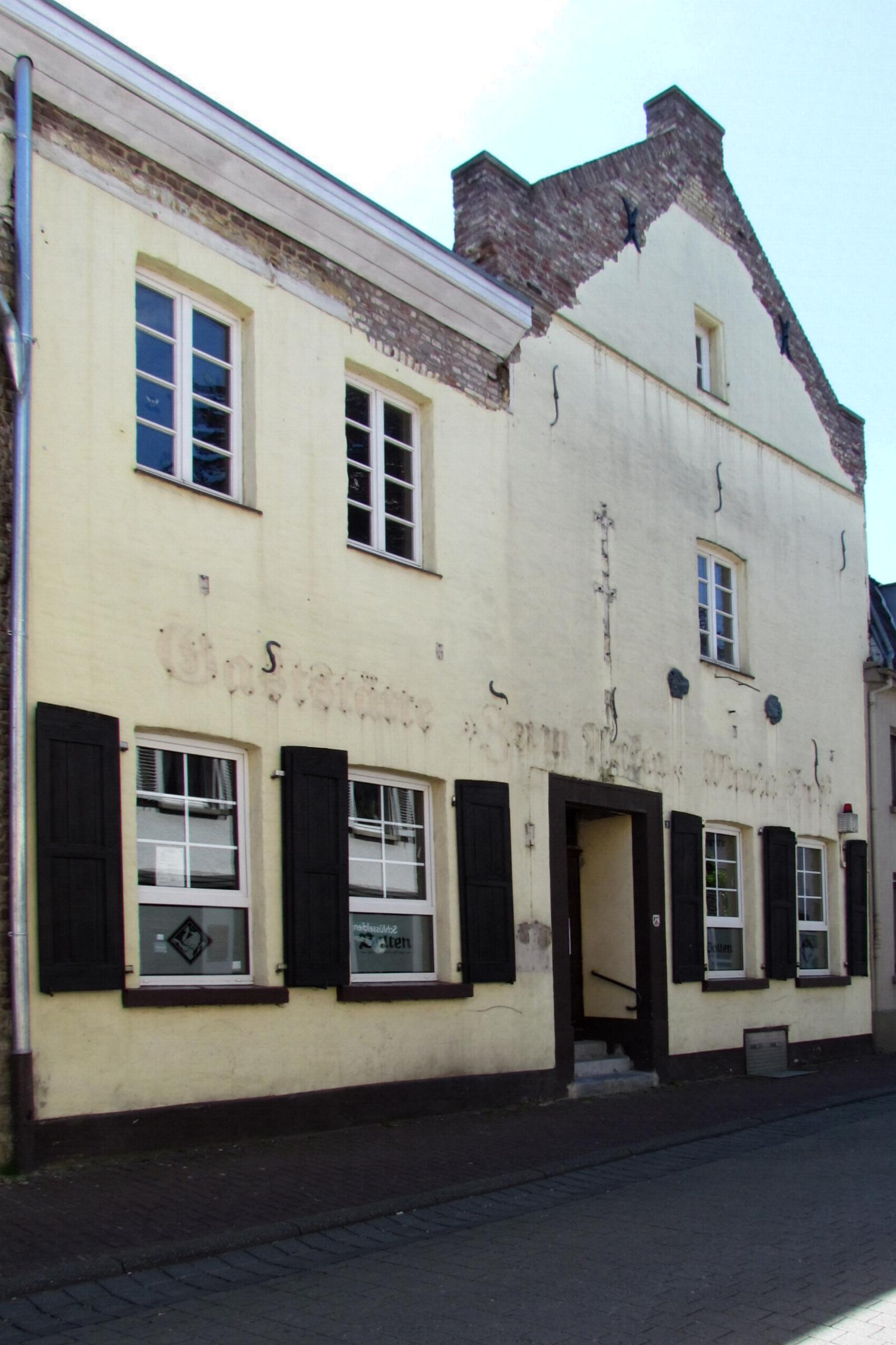 This is a photograph of an architectural monument.It is on the list of cultural monuments of Korschenbroich